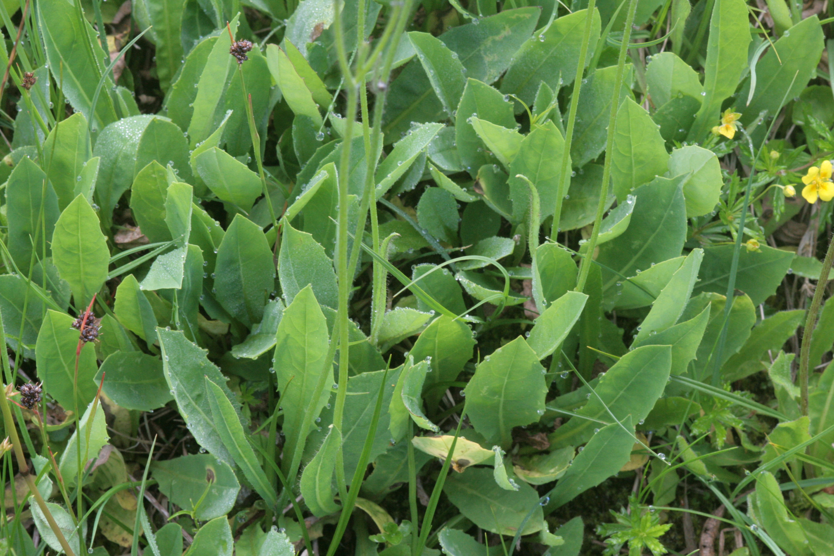 Willemetia stipitata